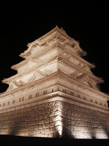 Photo from Yuki Matsuri (2002) by OzzieB.